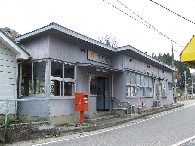 Nukuda Station on JR Central Iida Line